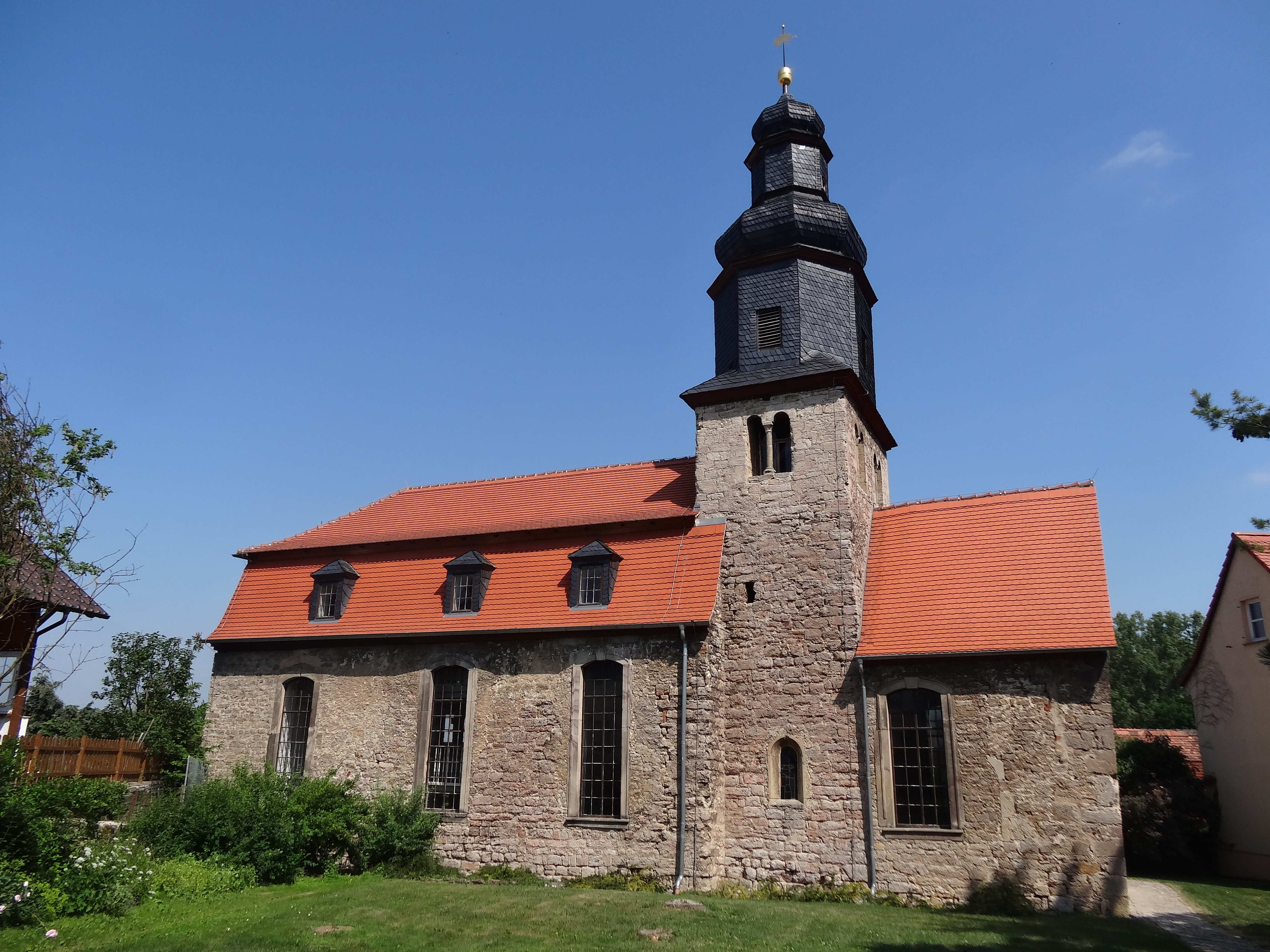 Church of Lehnstedt, Thuringia, Germany